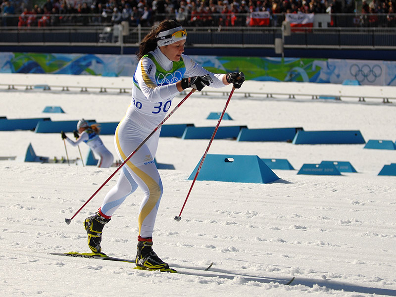 Britta Norgren at the Vancouver 2010 Olympics